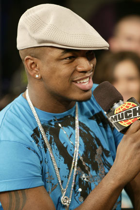 Ne-Yo at MuchMusic.